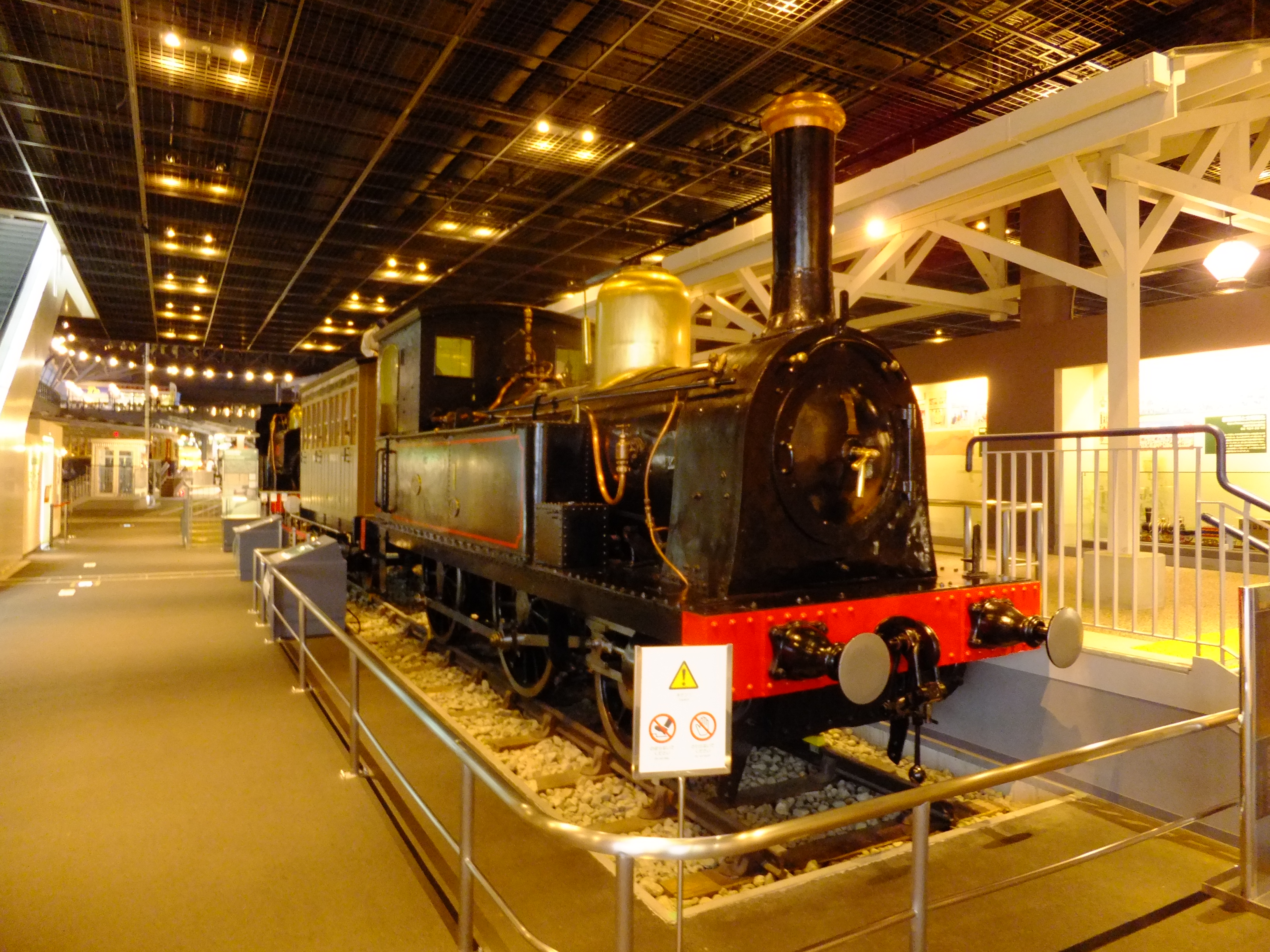 JGR Class 150 steam locomotive "No. 1" preserved at the Railway Museum in Saitama, Japan